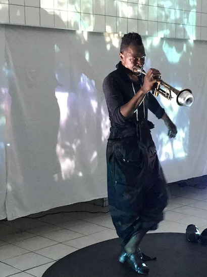 Herbin "Tamango" Van Caseeyle Dancing